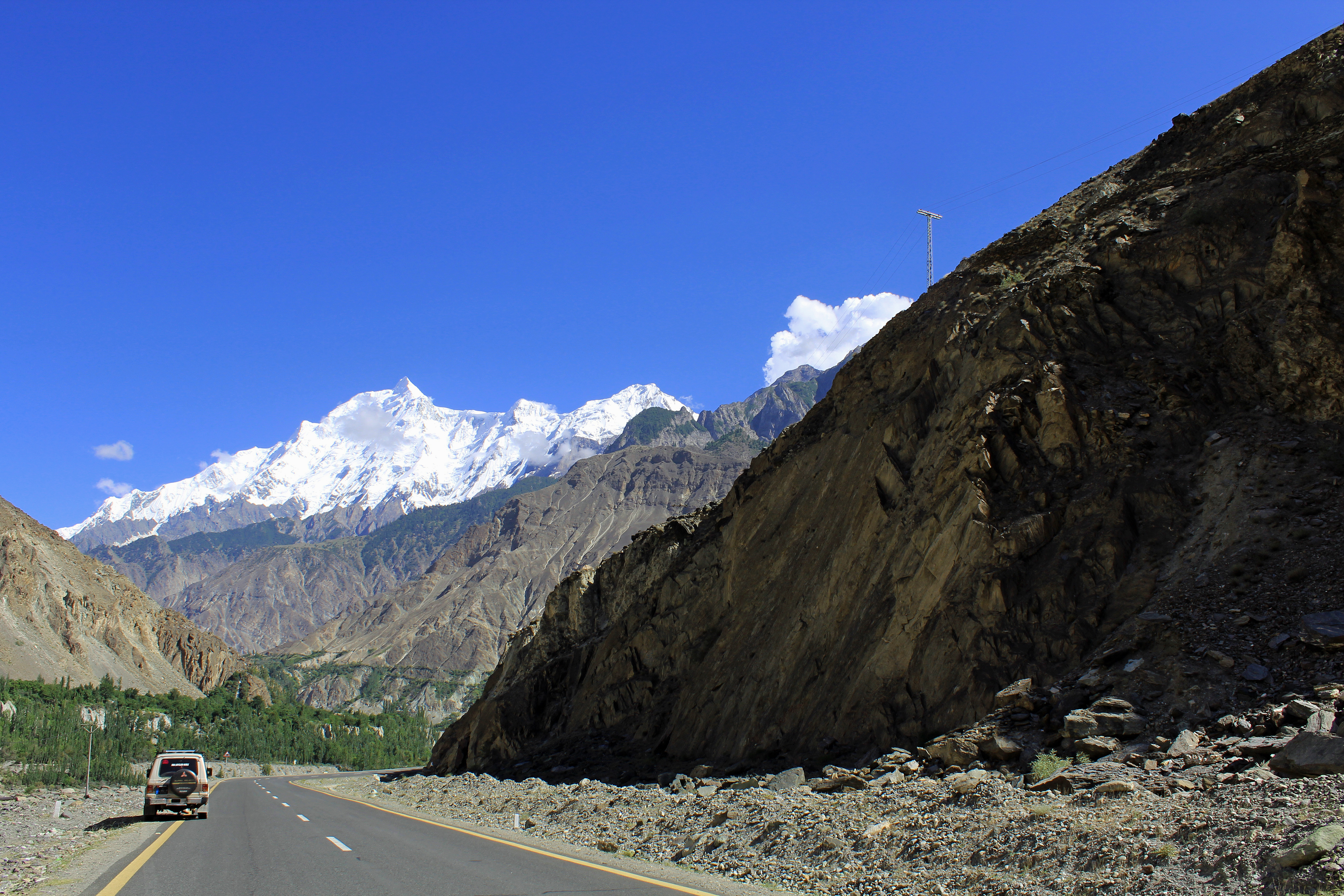 Rakaposhi as seen from Karakoram Highway near Sikanderabad